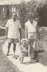 The Raban family